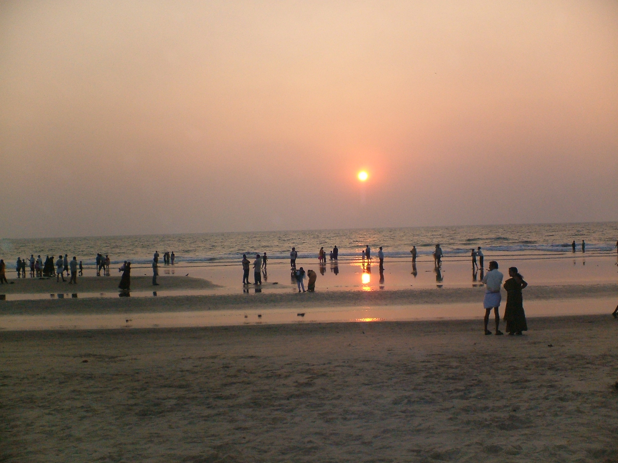 manojtv; personal